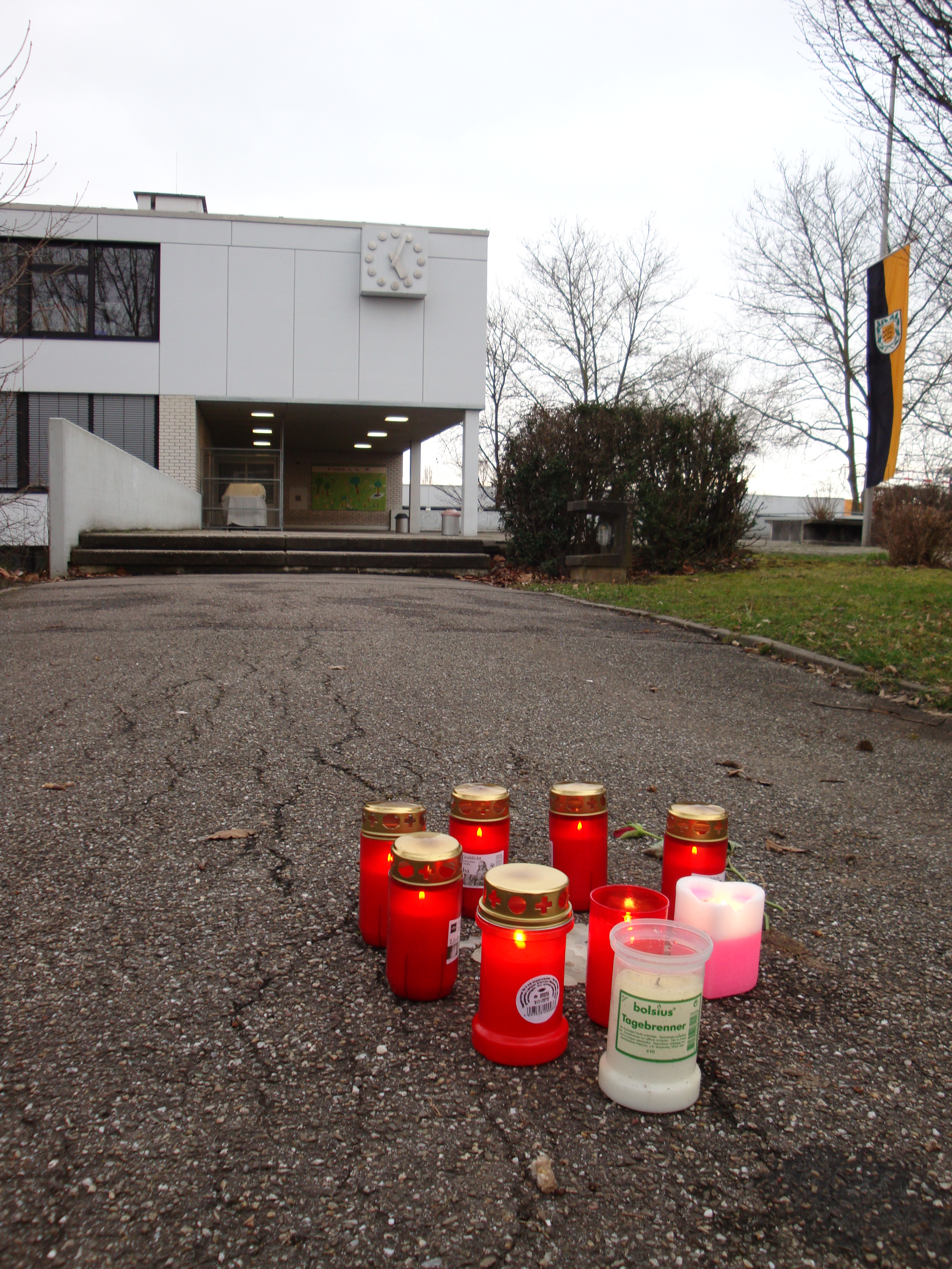 The school building of Winnenden school shooting, Albertville real school, in Baden-Württemberg, Germany